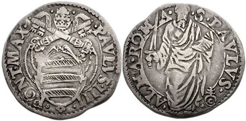 Italy, Papal States. Paulus IV. 1555-1559. AR Giulio (27mm, 3.01 g, 8h). Carafa coat-of-arms with Papal keys and tiara St. Paul standing, holding sword and book; magistrate's mark to right. Muntoni I pg. 201, 17; Berman 1040.